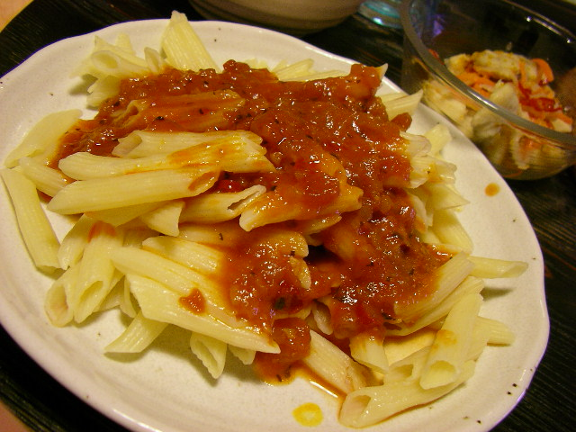 Penne with sauce